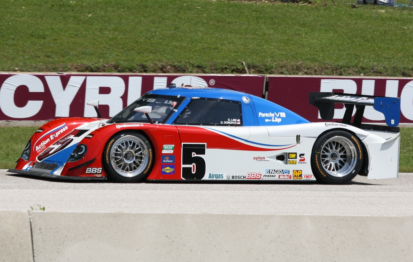 The Daytona Prototype of David Donohue and Darren Law as racing in Grand-Am sports car at Road America.